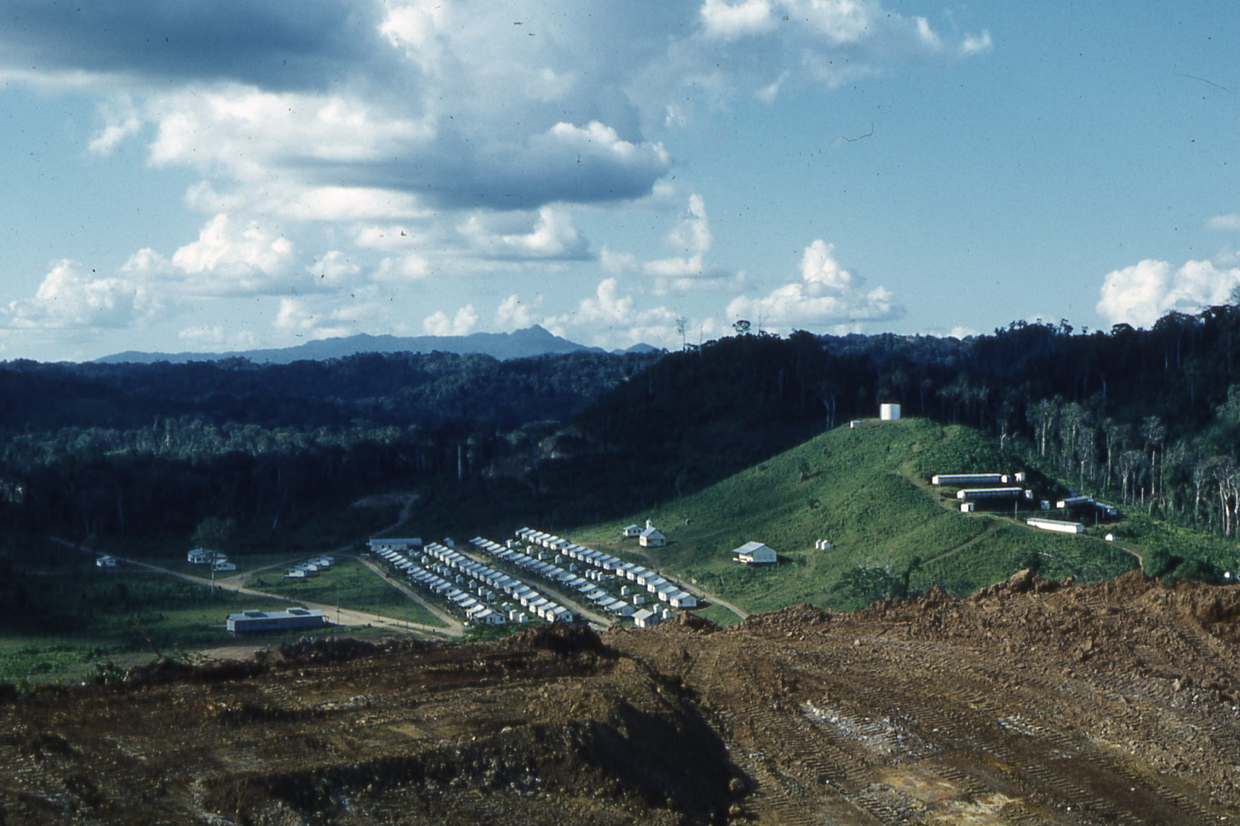 Mining town of Bonanza filmed in the late 1950's